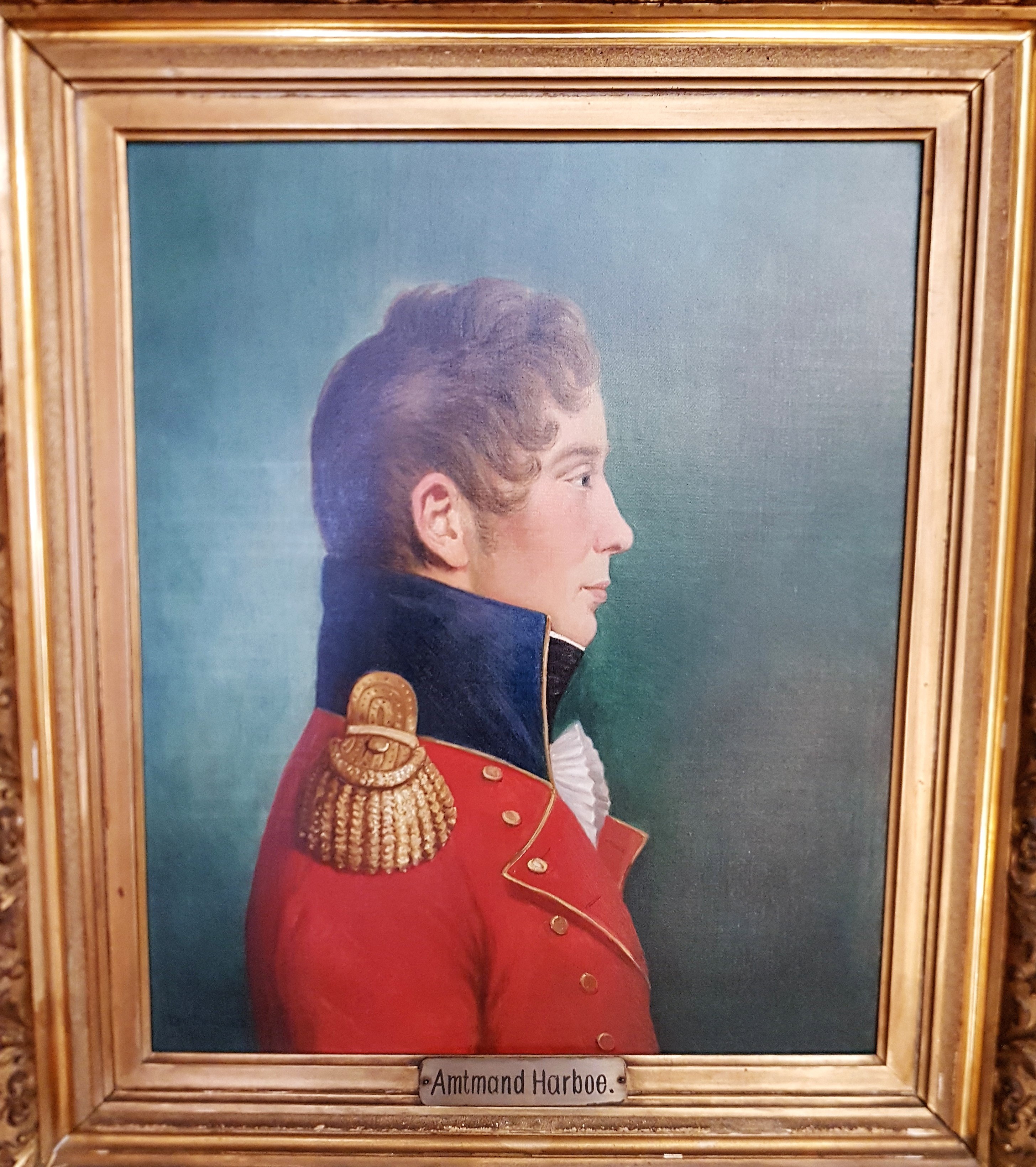 Photograph of a oil painting of Henrik Jacobsen Harboe (1784-1848)